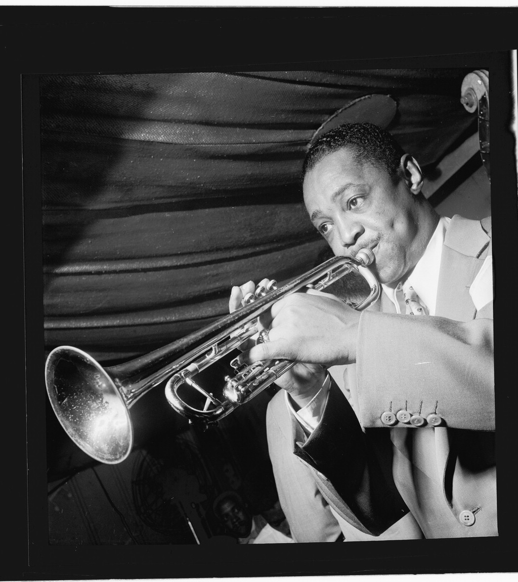 Gottlieb, William P., 1917-, photographer. Walter Fuller, New York, N.Y., between 1946 and 1948] 1 negative : b&w ; 2 1/4 x 2 1/4 in. Notes: Gottlieb Collection Assignment No. 371 Reference print available in Music Division, Library of Congress. Purchase William P. Gottlieb Forms part of: William P. Gottlieb Collection (Library of Congress). Subjects: Fuller, Walter, 1910- Jazz musicians--1940-1950. Trumpet players--1940-1950. Format: Portrait photographs--1940-1950. Film negatives--1940-1950. Rights Info: Mr. Gottlieb has dedicated these works to the public domain, but rights of privacy and publicity may apply. Repository: (negative) Library of Congress, Prints & Photographs Division, Washington D.C. 20540 USA, (reference print) Library of Congress, Music Division, Washington D.C. 20540 USA, Part Of: William P. Gottlieb Collection (DLC) 99-401005 General information about the Gottlieb Collection is available at Persistent URL: Call Number: LC-GLB23- 0298